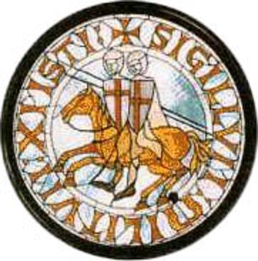 Modern representation of the "Knights Templar Seal" in the emblem of the "Mourne Preceptory of High Knights Templar and Masonic Knights of Malta" of Cork, Ireland.